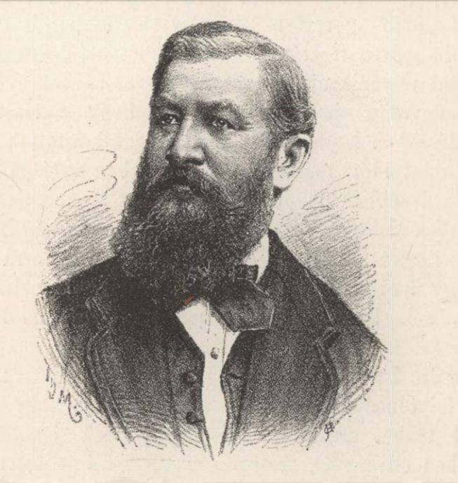 Joseph Topits (1824-1876), Hungary's first pasta factory founder and owner. The factory worked with steam and was founded in 1859, in the city of Pest.